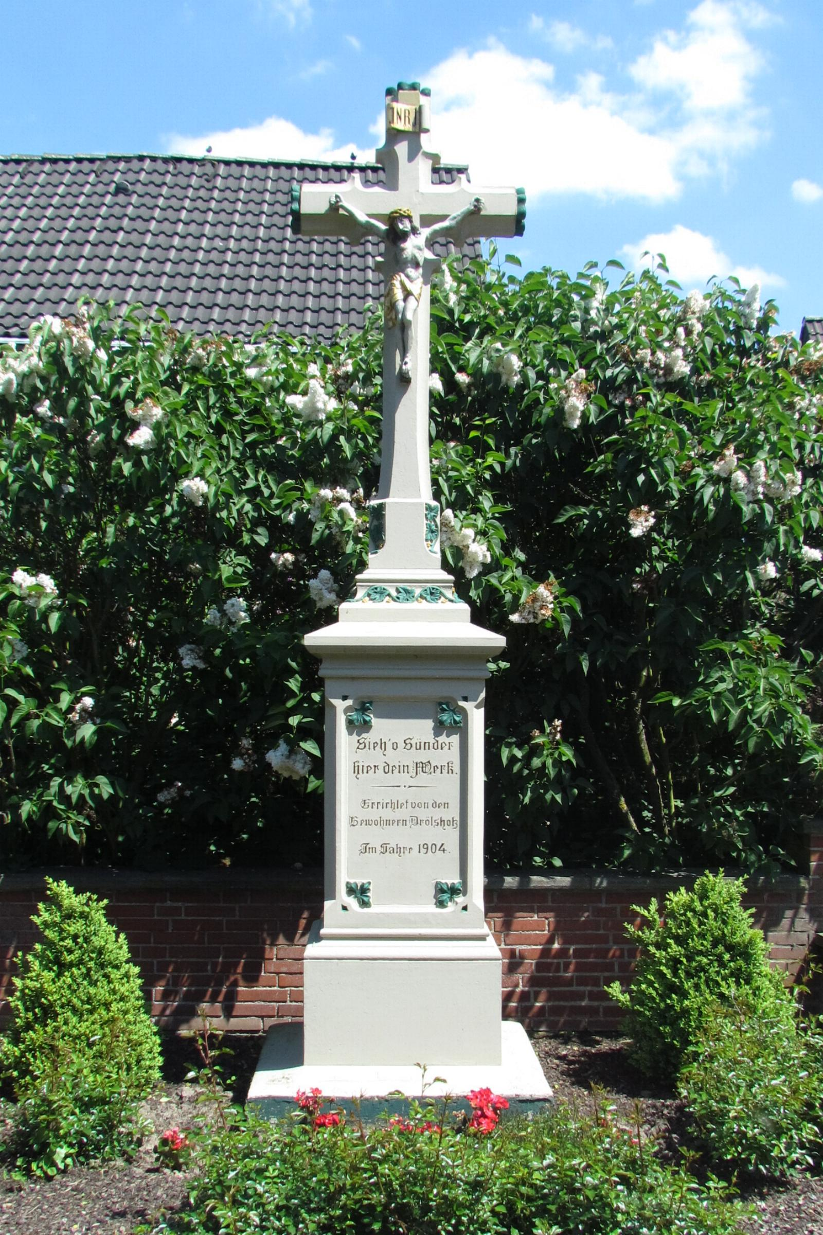 This is a photograph of an architectural monument.It is on the list of cultural monuments of Korschenbroich